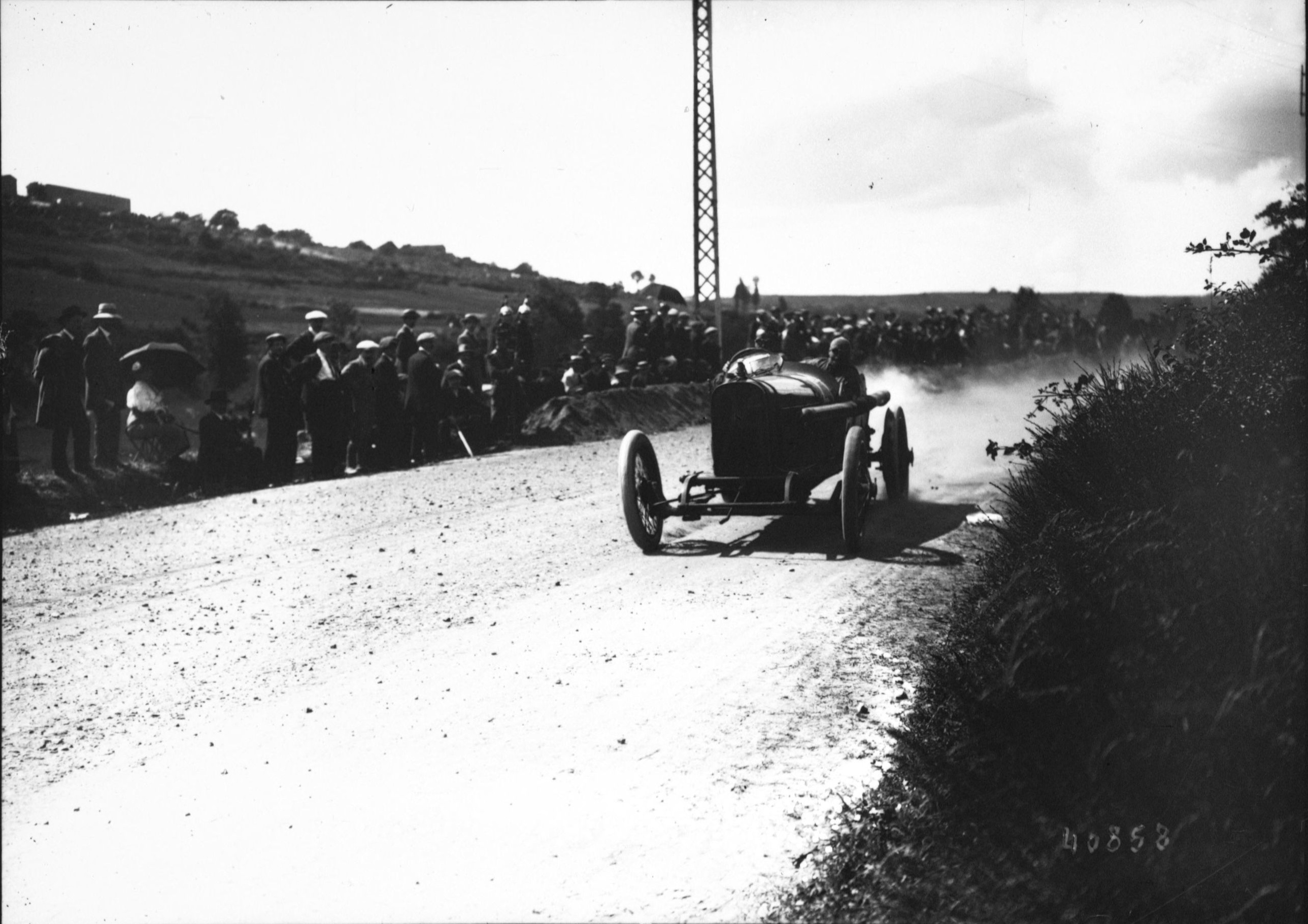 Dario Resta at the 1914 French Grand Prix driving a Sunbeam